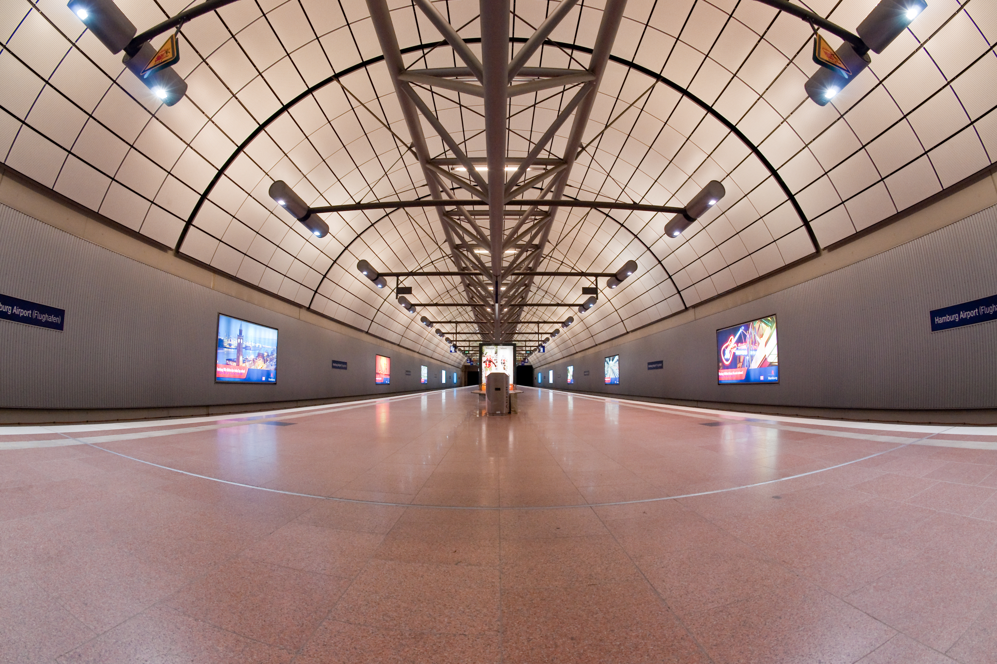 S-Bahn station in Hamburg Airport